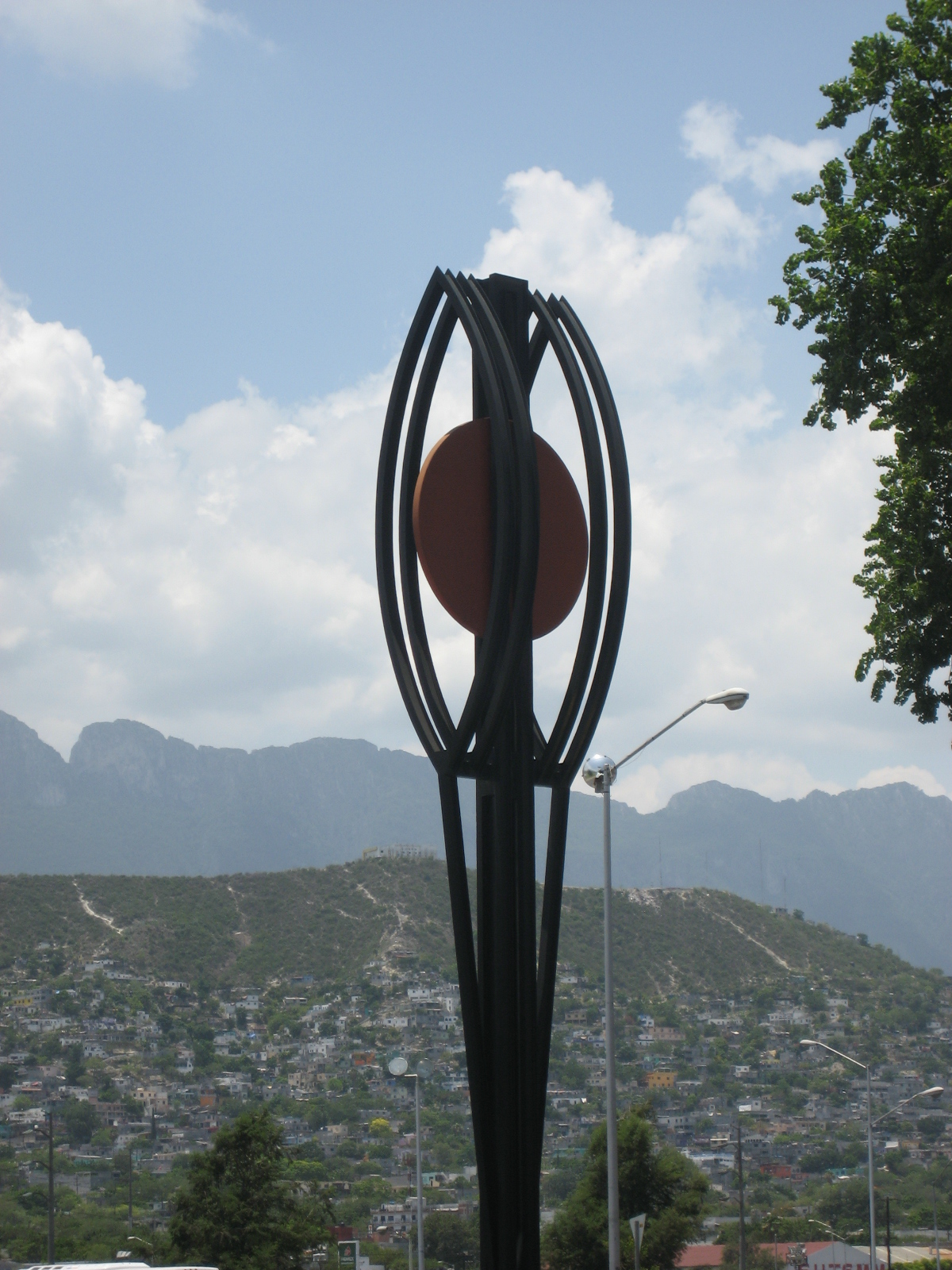 "Homenaje al Sol" tribute to the sun sculpture of Mexican artist Rufino Tamayo in MOnterrey México. (1980)